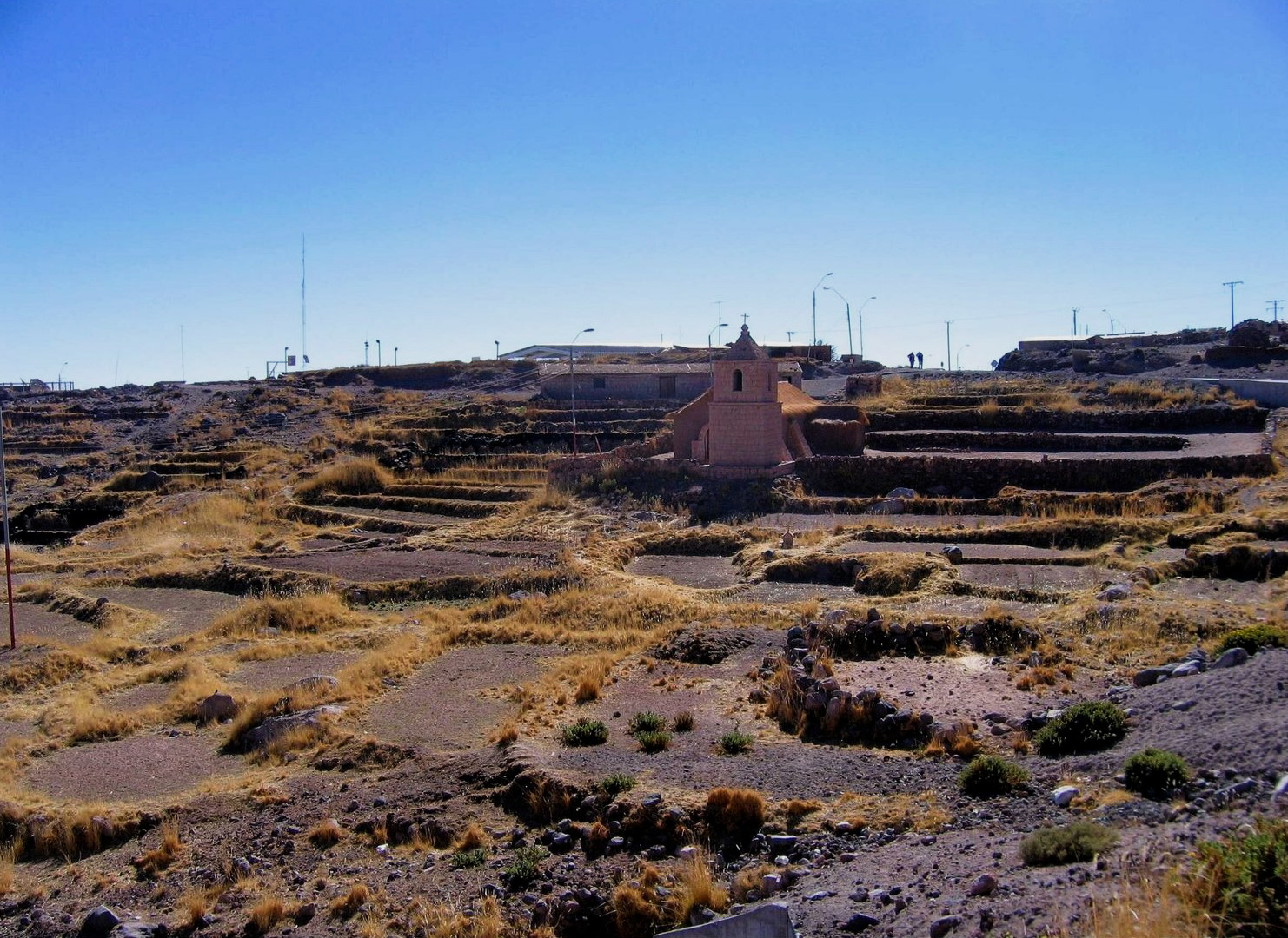 San Santiago church at Socaire